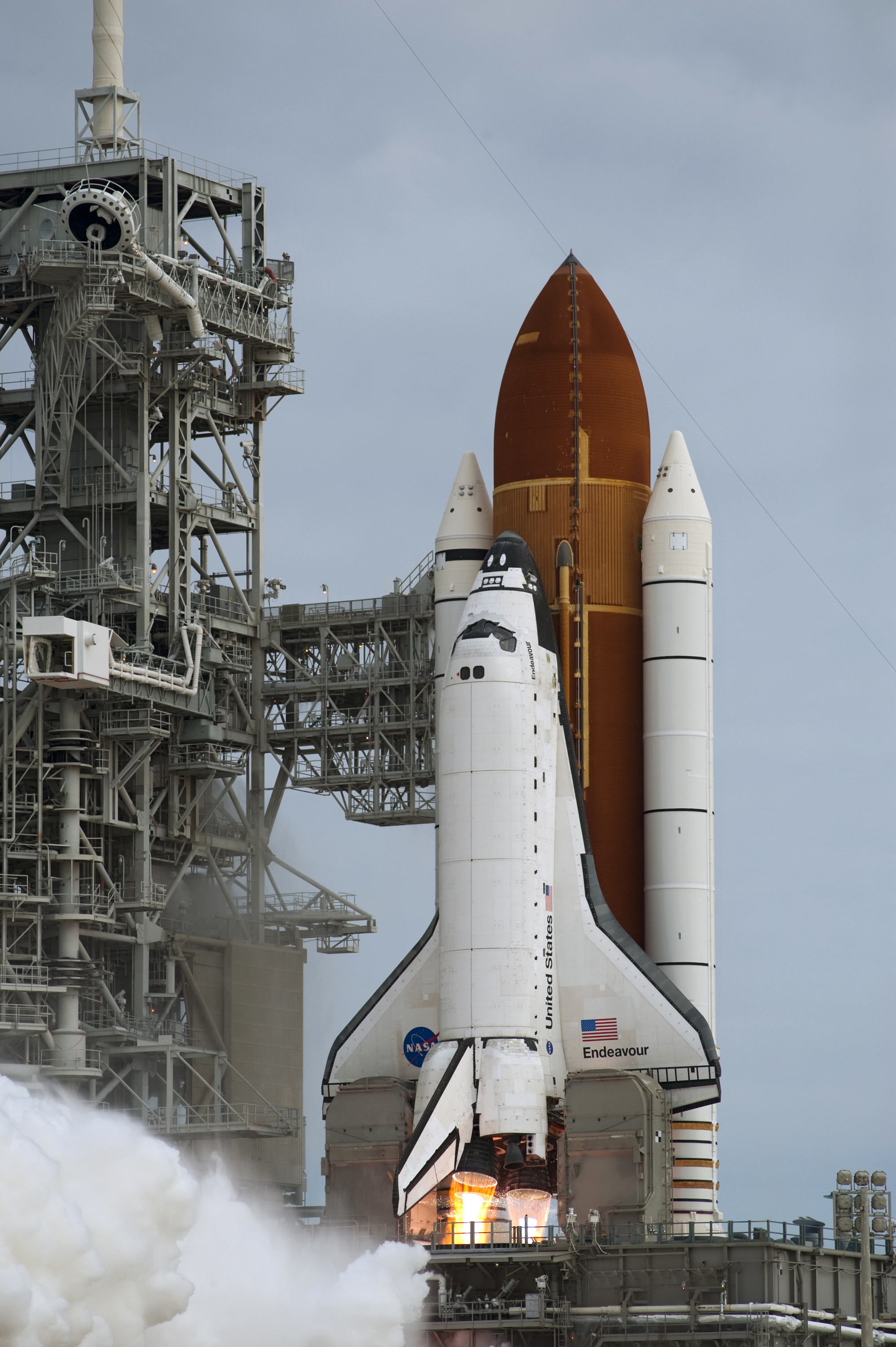 CAPE CANAVERAL, Fla. -- Space shuttle Endeavour's main engines ignite for liftoff at Launch Pad 39A at NASA's Kennedy Space Center in Florida. Endeavour began its final flight, the STS-134 mission to the International Space Station, at 8:56 a.m. EDT on May 16. Endeavour and its six-member crew will deliver the Alpha Magnetic Spectrometer-2 (AMS), Express Logistics Carrier-3, a high-pressure gas tank and additional spare parts for the Dextre robotic helper to the space station.